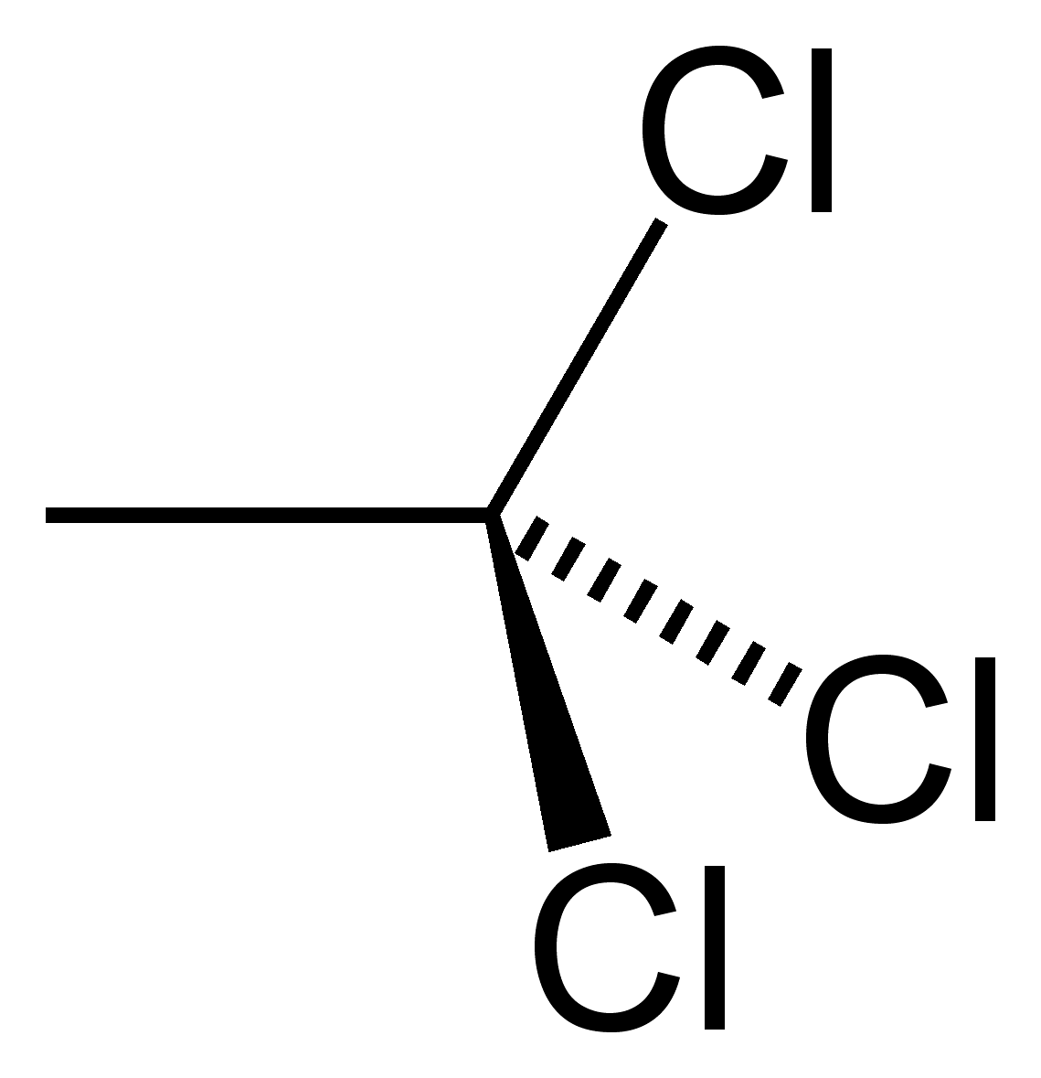 1,1,1-trichloroethane